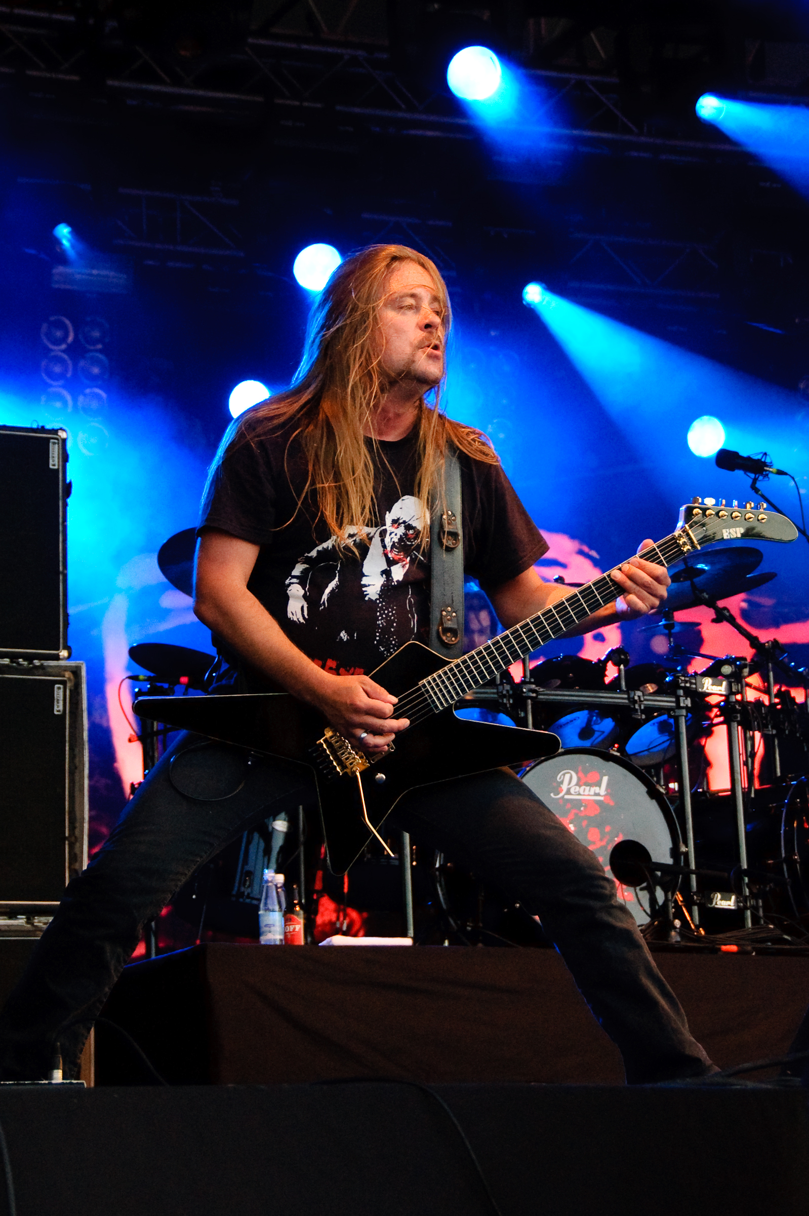 Guitarist Roope Latvala of Children of Bodom performing at the Ilosaarirock festival in Joensuu, Finland